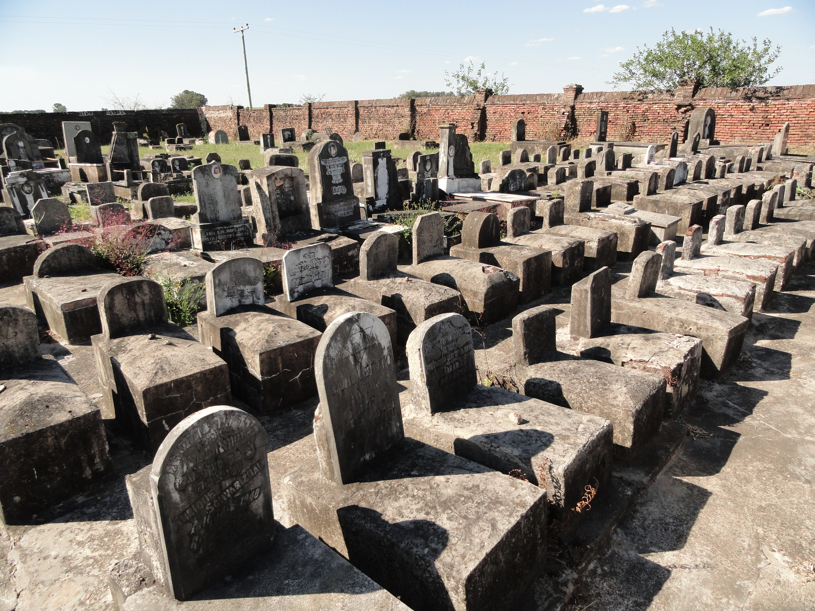 Cemetery of Colonia 1 (Lucienville). Children's graves. dead from the typhoyd fever in the 1930's